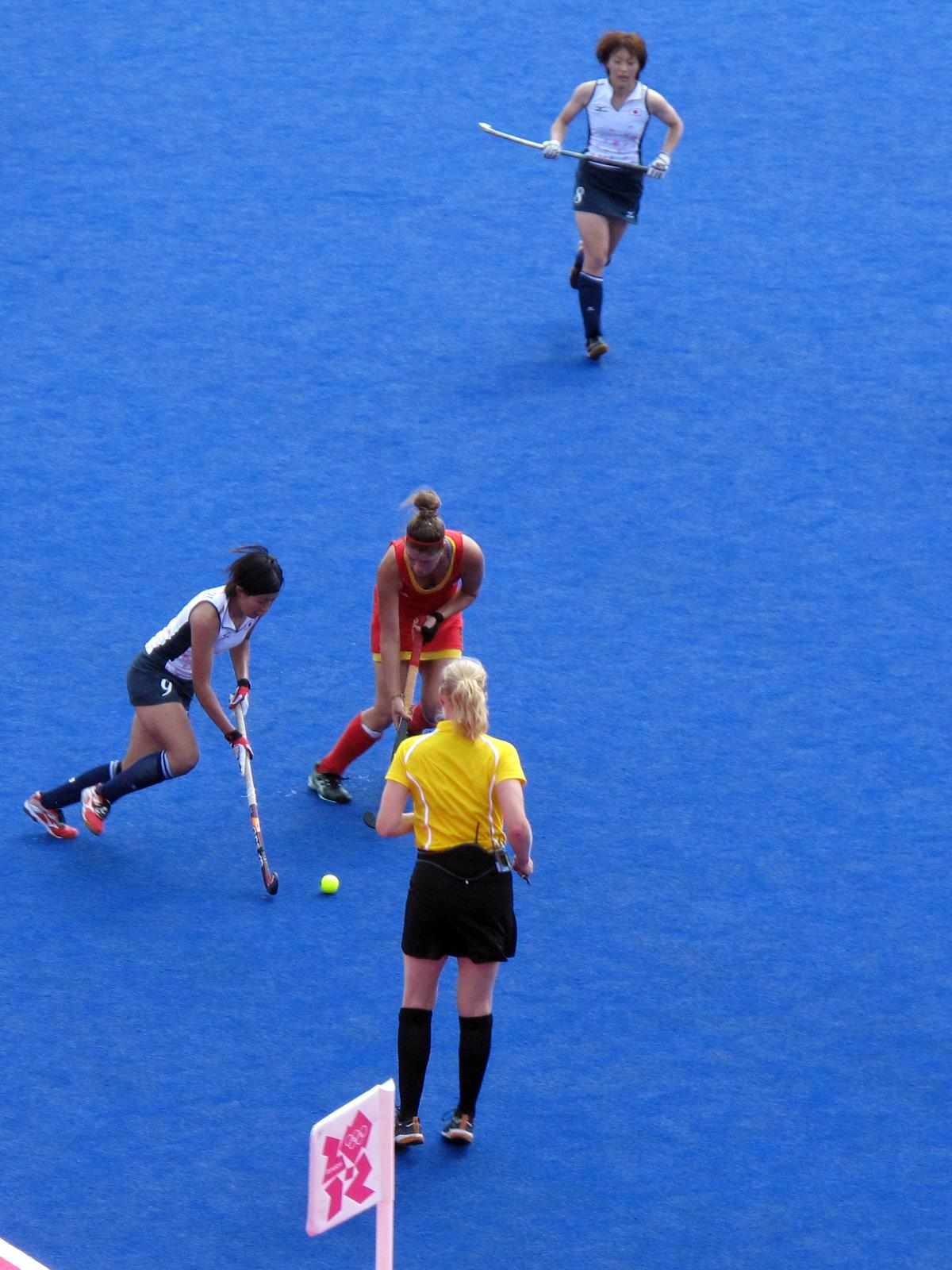 Japan v Belgium. Women's Olympic Hockey at London 2012.